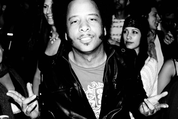 Boots Riley in a leather jacket